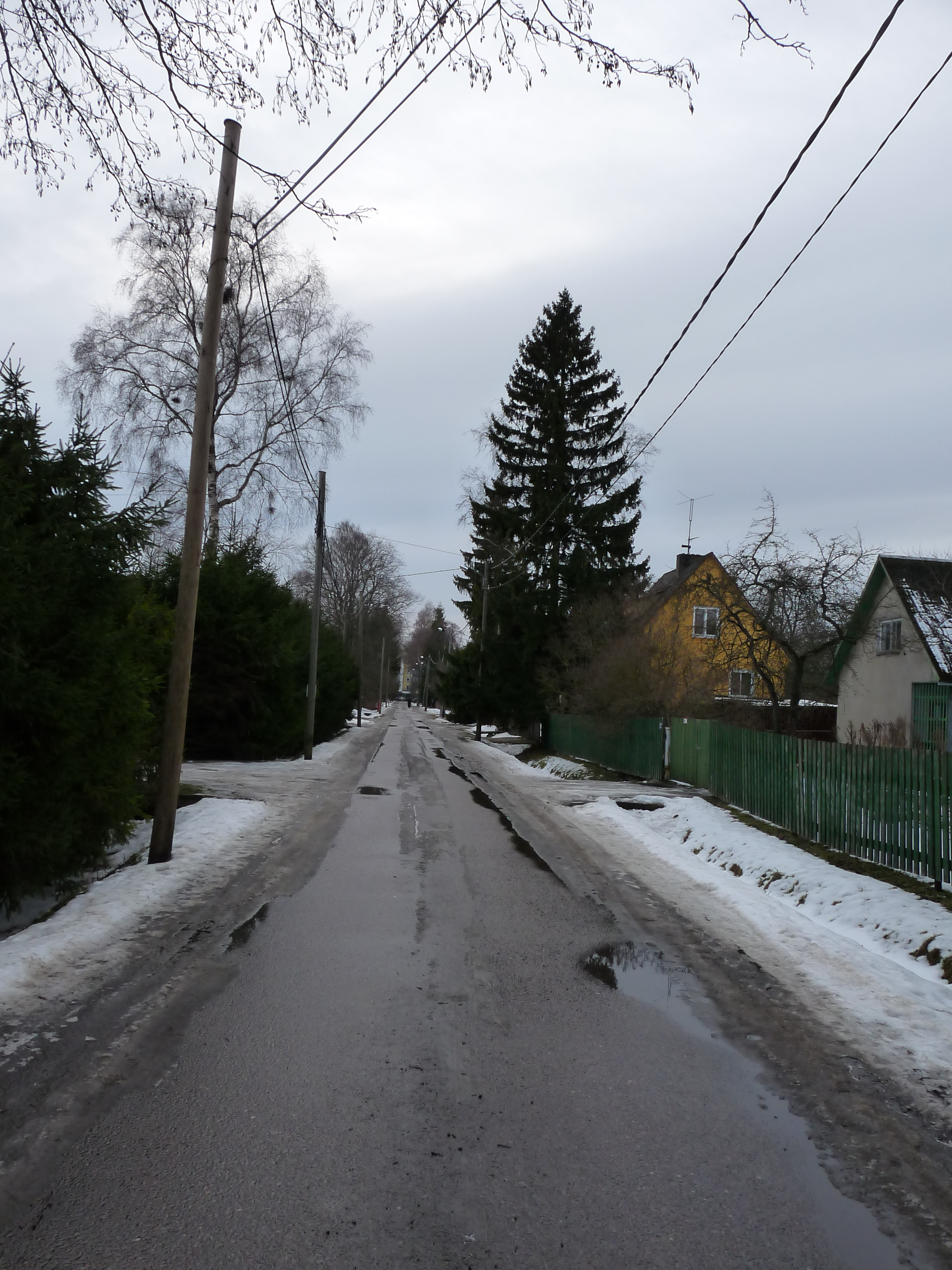 Mõtuse street in Tallinn, Estonia